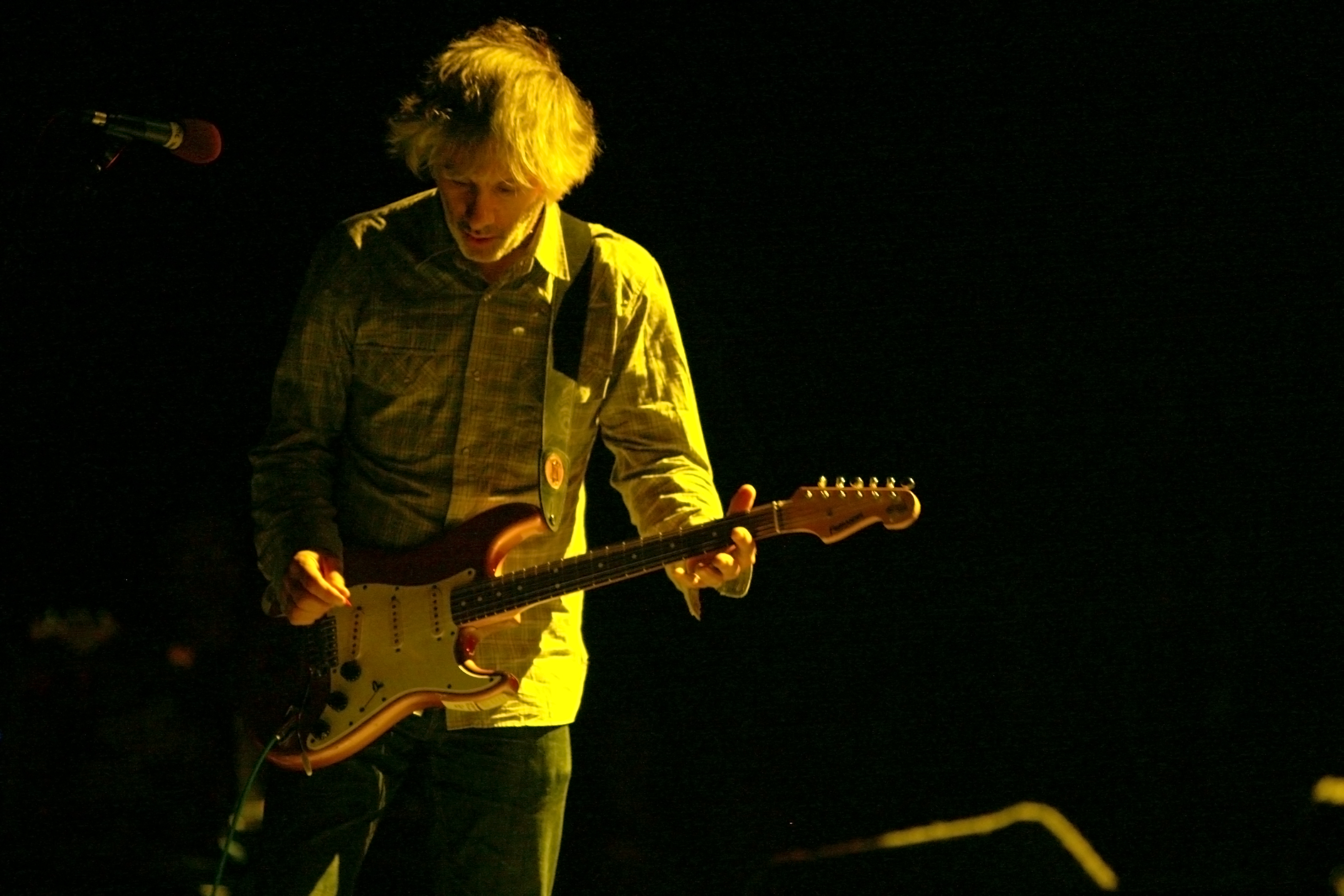 Lee Ranaldo (Sonic Youth) at Rock en Seine Route du Rock, August 2007